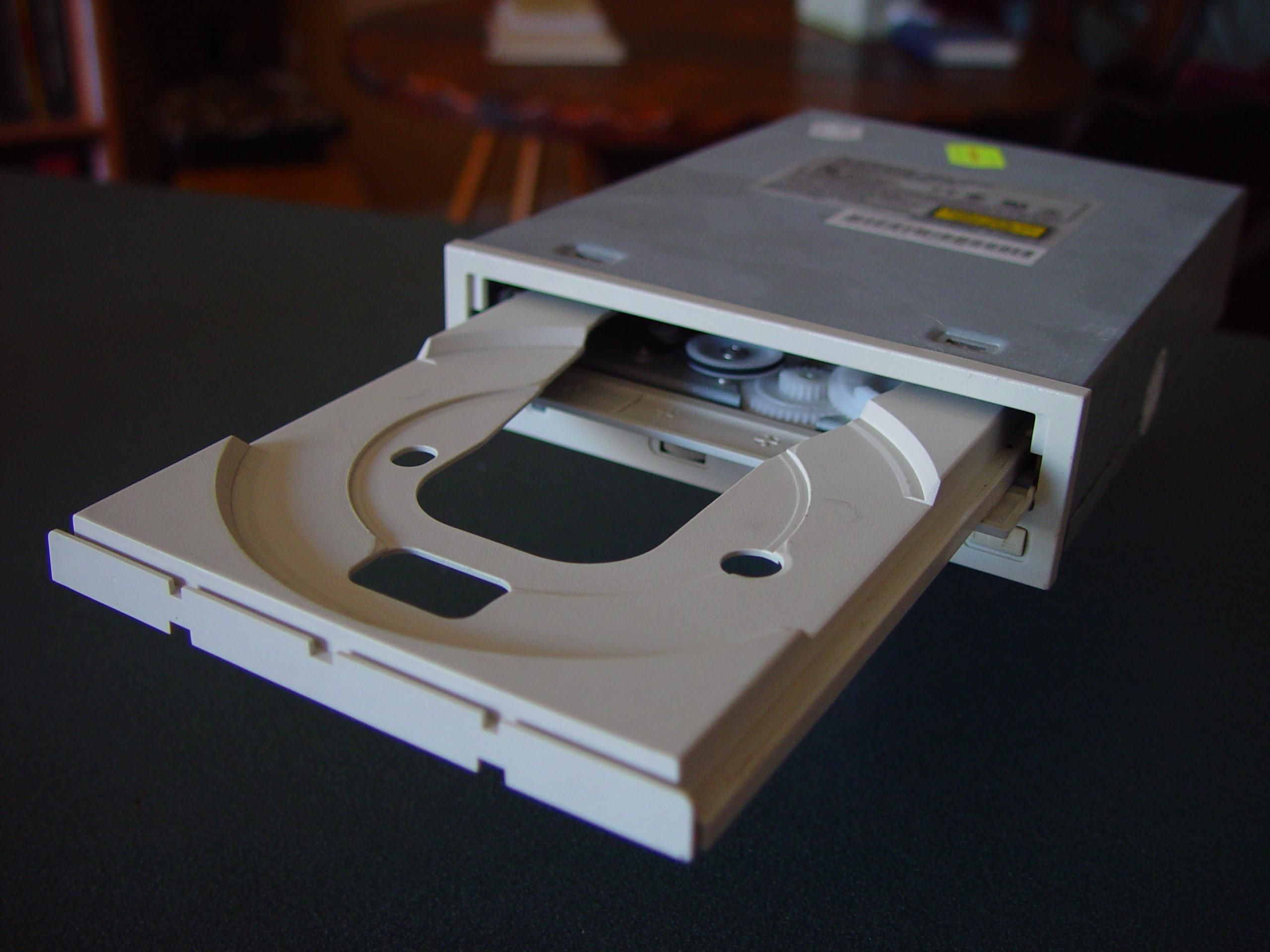 Image title: Cd rom drive with door open Image from Public domain images website